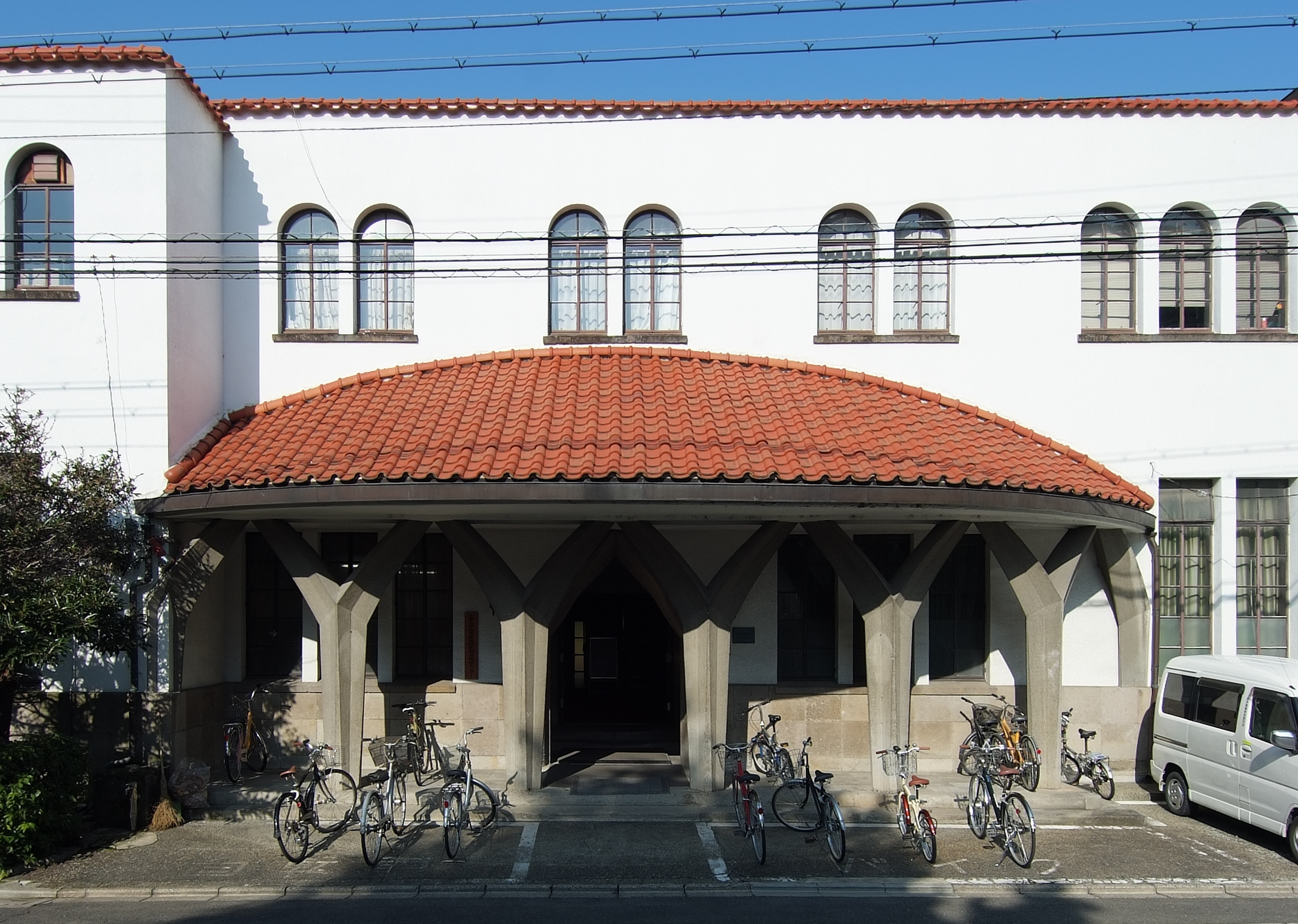 Rakuyu-kaikan Kyoto University, Sakyo-ku Kyoto Japan, designed by Keiichi Morita in 1925.